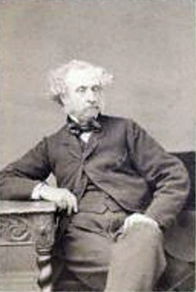 Portrait of Octavius Oakley by Cundall, Downes & Co., albumen carte-de-visite, circa 1864, 3 1/2 in. x 2 3/8 in. (88 mm x 59 mm) image size